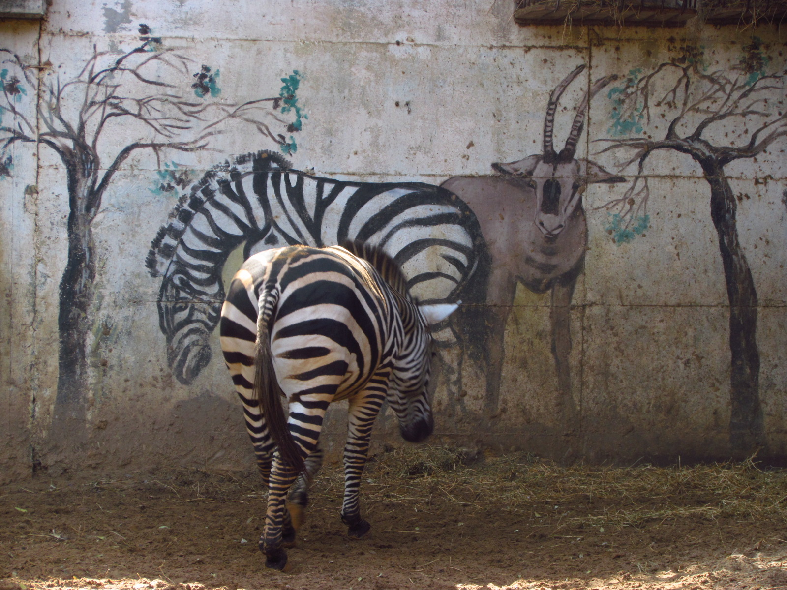 Rishon Lezion zoo